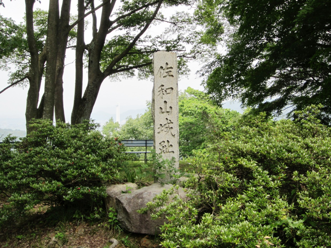 The site of Sawayama Castle in Hikone, Shiga.